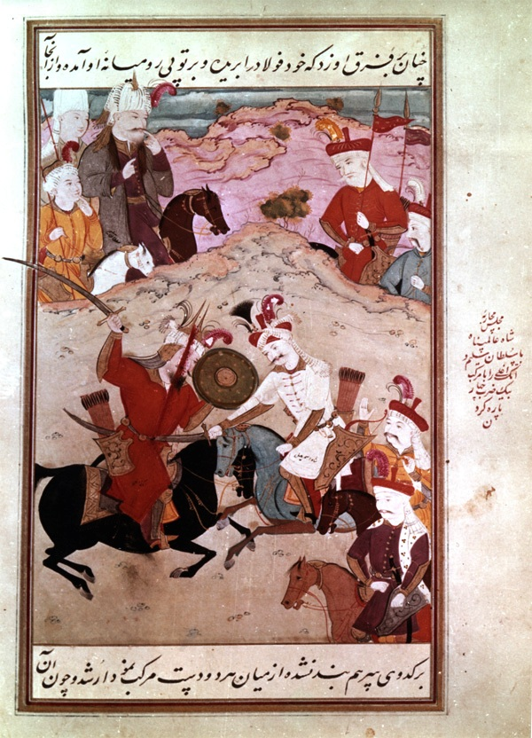 Ismail I killing one of the Ottoman commanders at the battle of Chaldiran